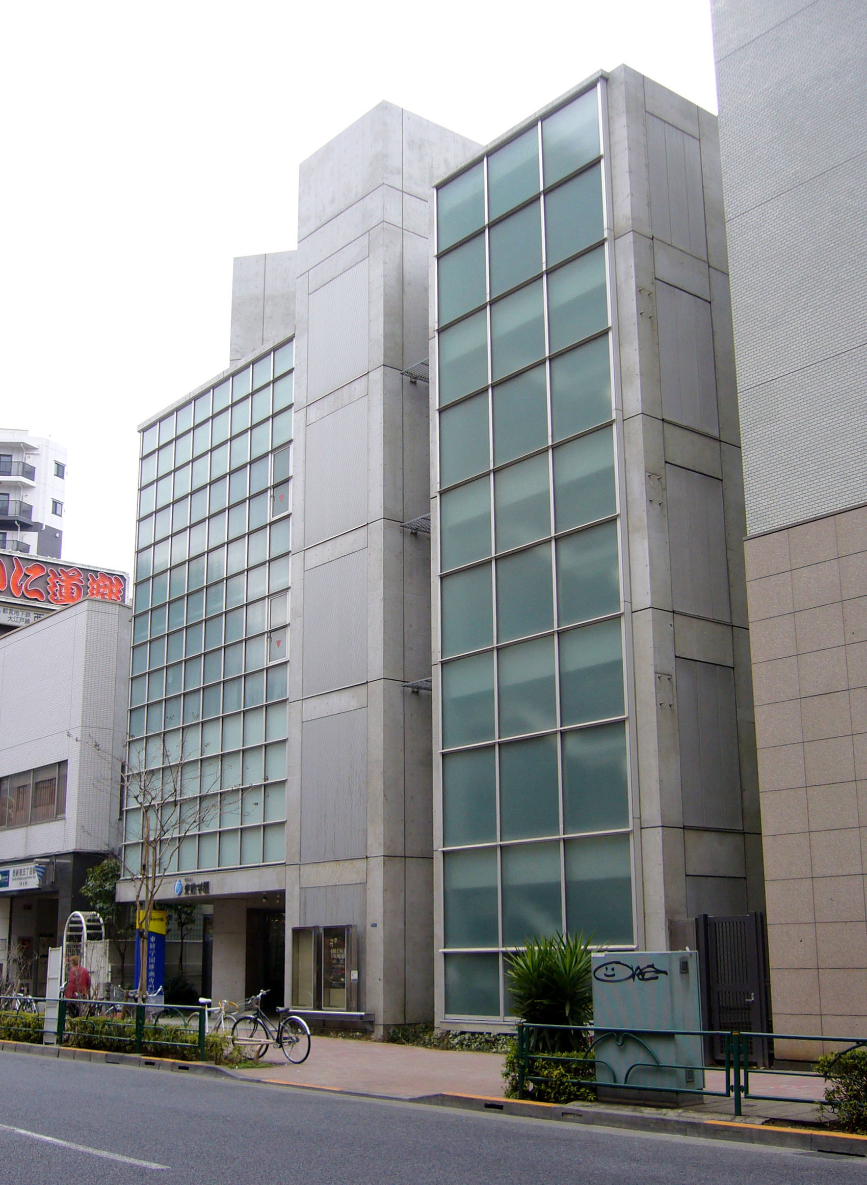 Toho Gakuen Film Techniques Training College (Tokyo, Japan)